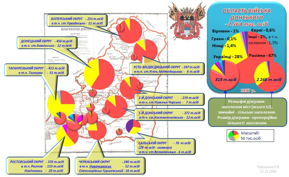 Ethnic map of the Don Oblast according to the 1897 census